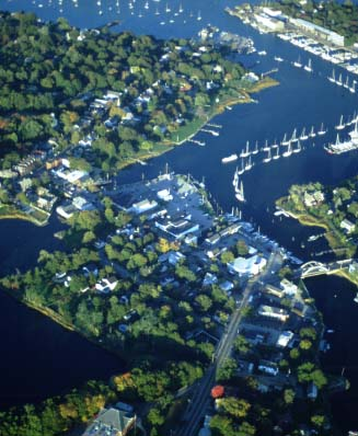 My photograph.